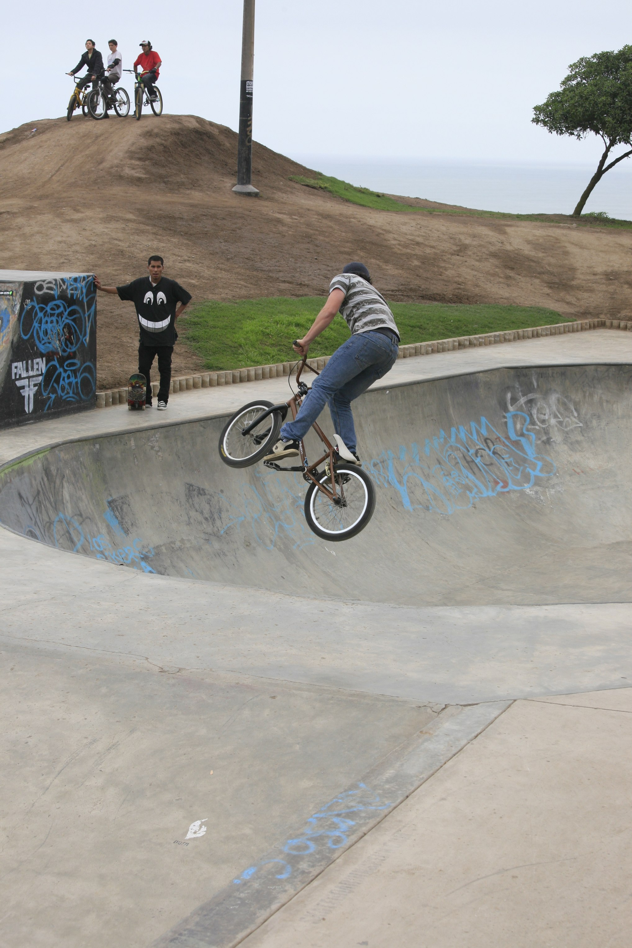 Biking in the Bowl